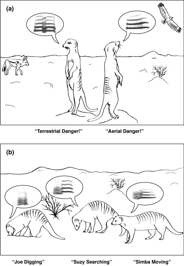 Schematic of vocalization types in members of the mongoose family. (a) Meerkats Suricata suricatta produce functionally referential alarm calls that signal both predator location (terrestrial versus aerial) and urgency. (b) Banded mongooses (Mungos mungo) produce close calls that sequentially encode both individual identity (a 'vocal signature') and current activity. This provides the first known example in animals of phonological syntax within a single referential signal. (Figure by Nadja Kavcik.)